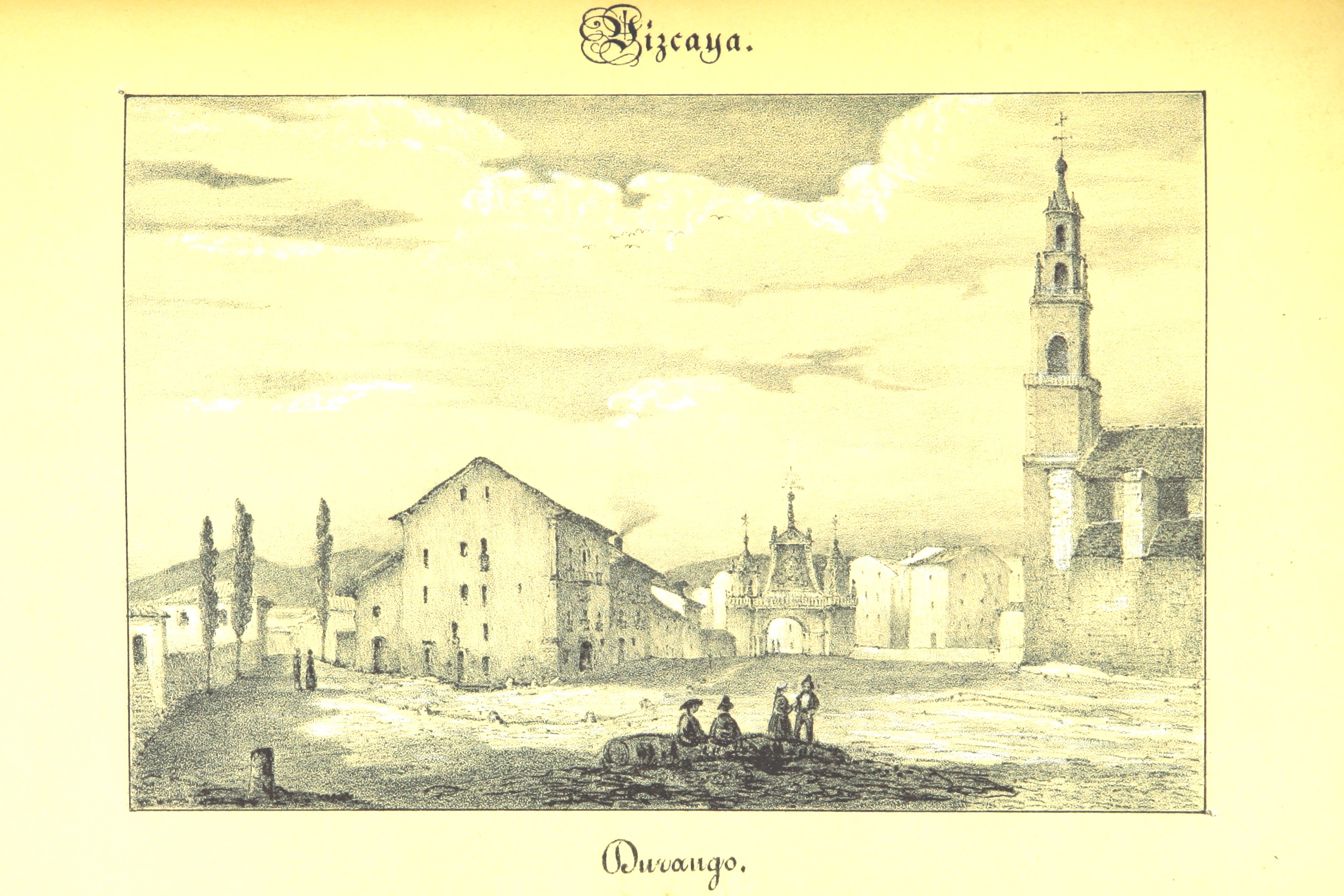 Image taken from: Title: "Revista pintoresca de las provincias Bascongadas. Edicion de lujo. Adornada con vistas ... por S. Lambla. Escrita por L. M. de E. y A. A. y H. Entrega 1-45" Author: E., L. M. de - and A. y H. (A.) Contributor: A. y H., A. Contributor: LAMBLA, Julio. Shelfmark: "British Library HMNTS 10161.f.16." Page: 429 Place of Publishing: Bilbao Date of Publishing: 1844 Issuance: monographic Identifier: 001024664 Explore: Find this item in the British Library catalogue, 'Explore'. Download the PDF for this book (volume: 0) Image found on book scan 429 (NB not necessarily a page number) Download the OCR-derived text for this volume: (plain text) or (json) Click here to see all the illustrations in this book and click here to browse other illustrations published in books in the same year. Order a higher quality version from here.